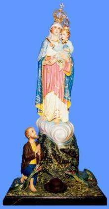 Nossa Senhora da Penha